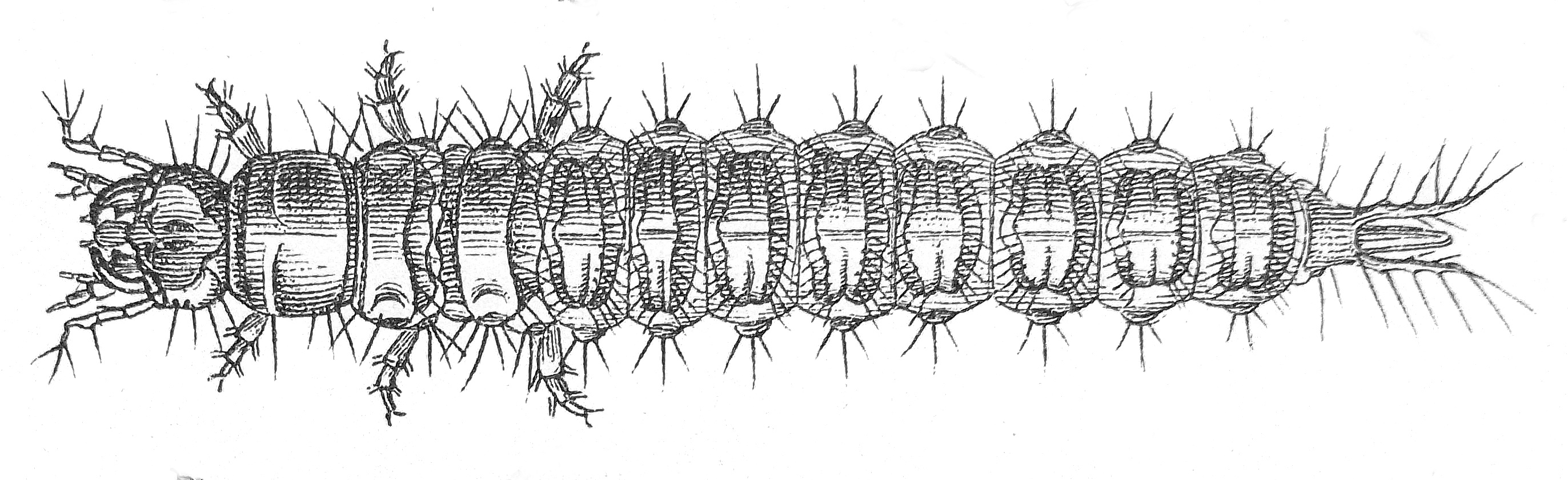 Larva of Stenolophus teutonus from Edmund Reitter Fauna Germanica I. Bd Tafel 26 Fig 1a